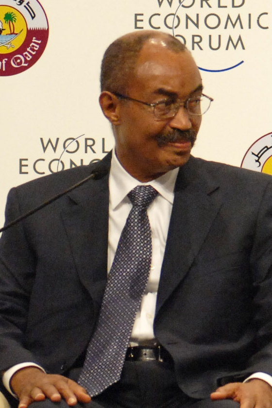 Amani Abeid Karume at the World Economic Forum Global Redesign Summit 2010.